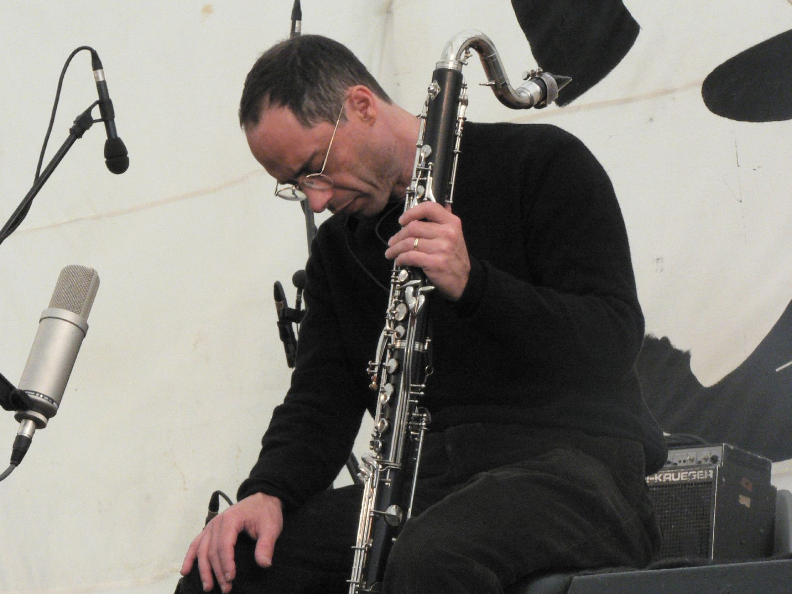 Ned Rothenberg at Appleby Jazz Festival 2007